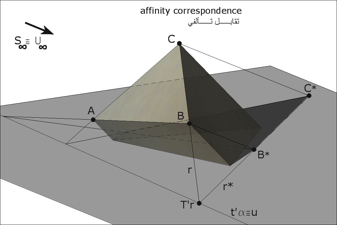 Descriptive geometry. Theory of shadows. Affinity correspondence between a figure and its shadow